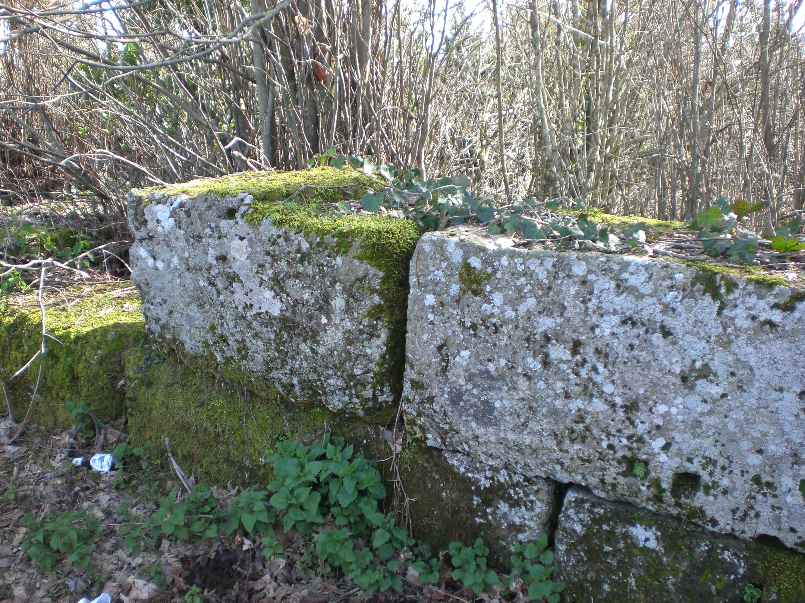 Stones of Jupiter Latiaris Temple on the top of Monte Cavo